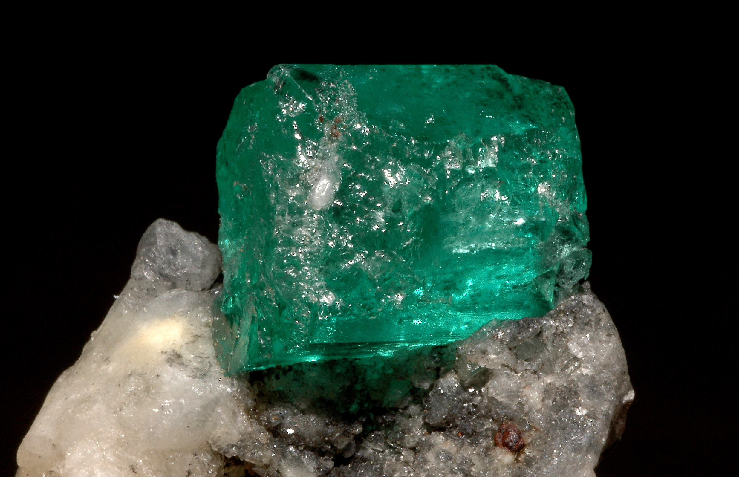 beryl var. emerald, parasite-(Ce) : Muzo Mine, Mun. de Muzo, Vasquez-Yacopí Mining District, Boyacá Department, Colombia